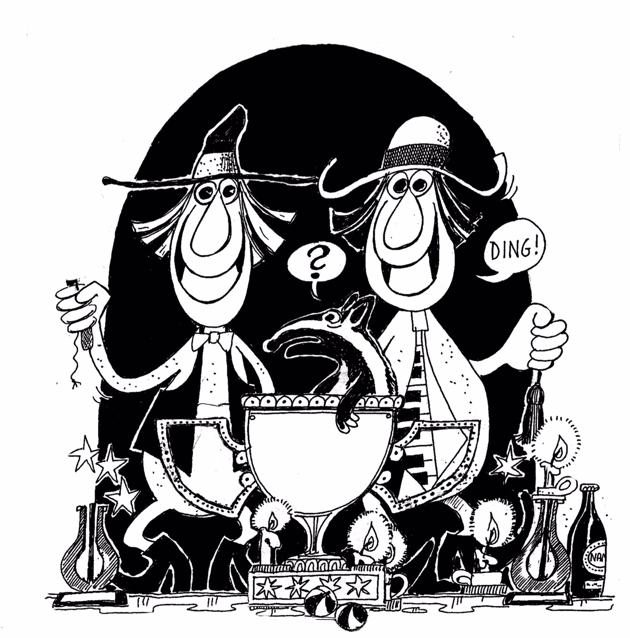 A drawing of Knutsen & Ludvigsen, the alter egos of the Norwegian entertainers Øystein Dolmen and Gustav Lorentzen